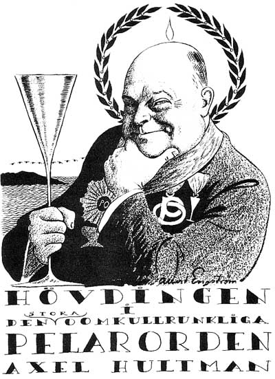 Axel Hultman, Chief of the swedish fraternity Pelarorden